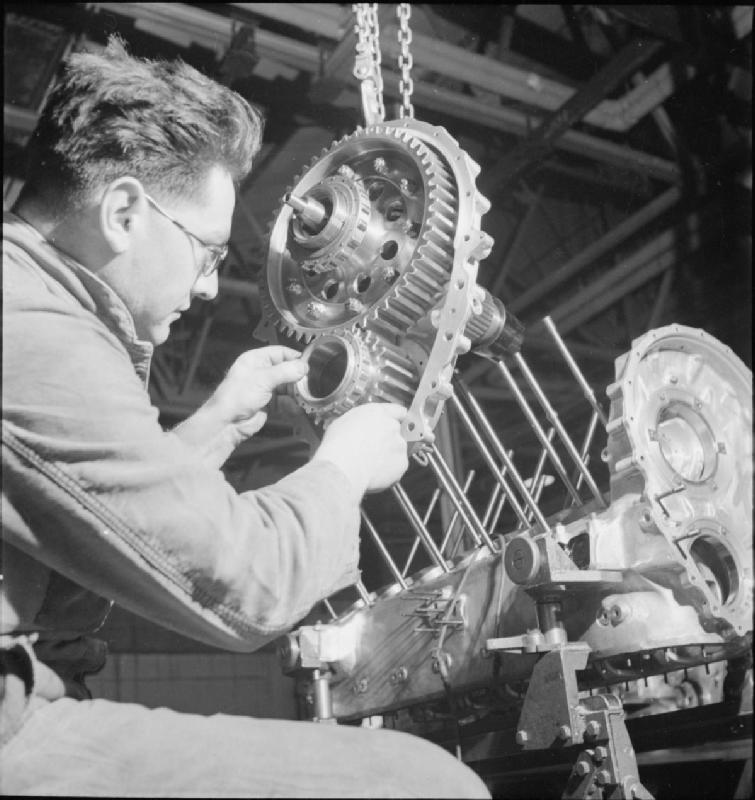 A Merlin Is Made- the Production of Merlin Engines at a Rolls Royce Factory, 1942 A worker checks the alignment of the pinions in the reduction gear at this aircraft engine factory, somewhere in Britain. This gear will then be fitted to the Crank Case.